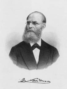 The German dirigent Franz Wüllner (1832—1902)